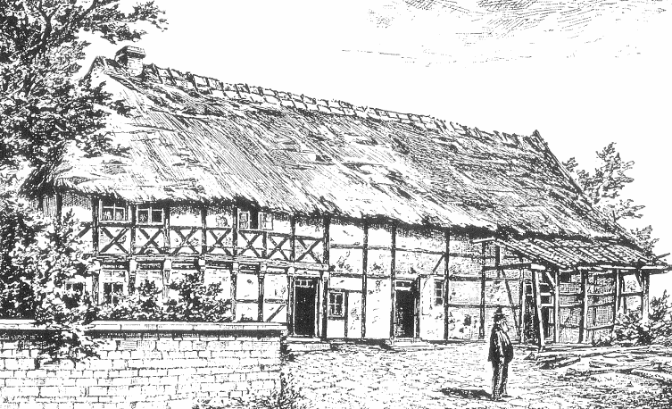 Middle German house, Ernhaus or Thuringian house, sketch from: Braunschweiger Volkskunde, Richard Andree, Braunschweig, 1901.